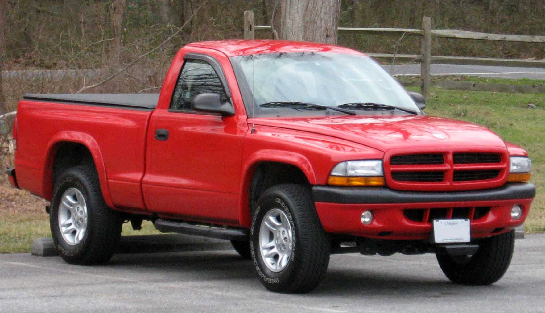 1997-2004 Dodge Dakota photographed in Accokeek, Maryland, USA.